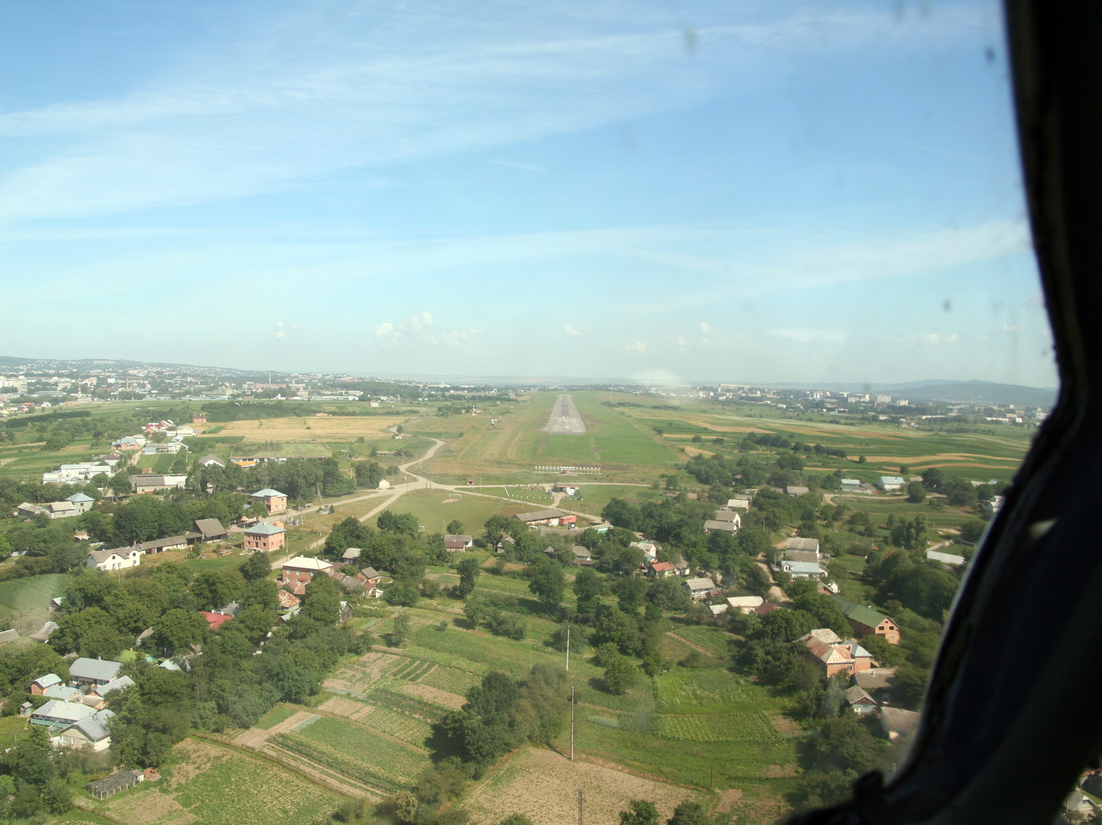 Approach in Chernivtsi RWY33